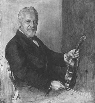 Engraved portrait of Austrian violinist Arnold Rosé (1863—1946)